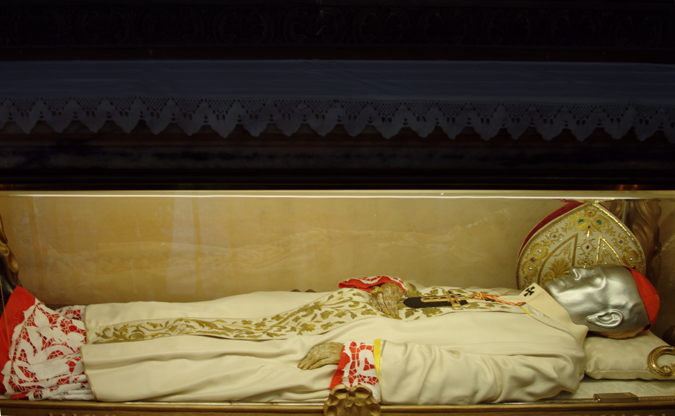 Interior of the Duomo, Milan